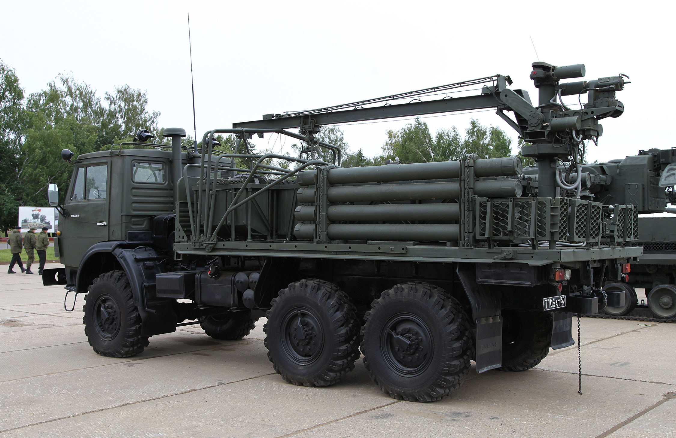 2F77M transloading vehicle for 2K22M Tunguska-M